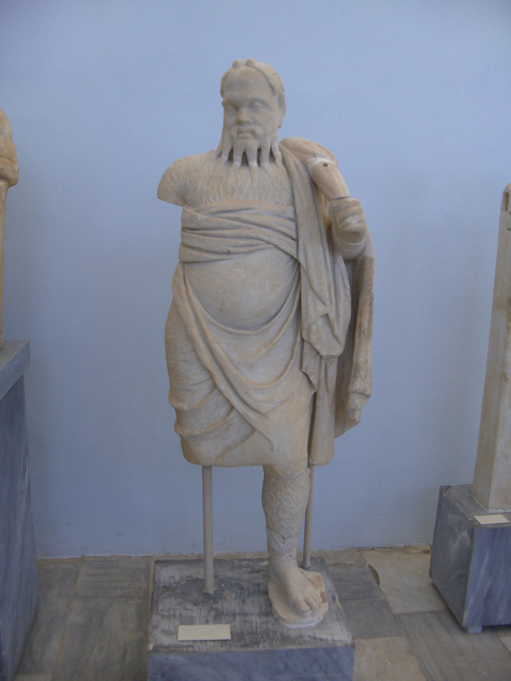 Silenus, the tutor of Dionysos, in an exhibit at the museum of Delos.